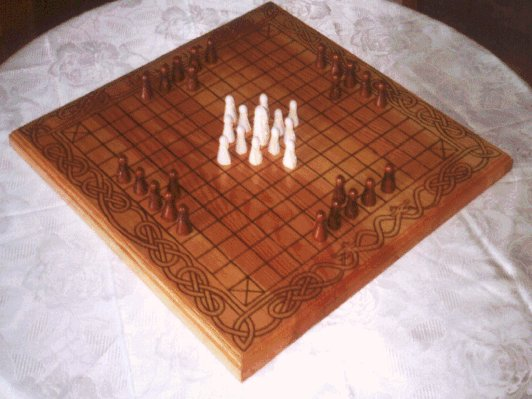 Hnefatafl (from